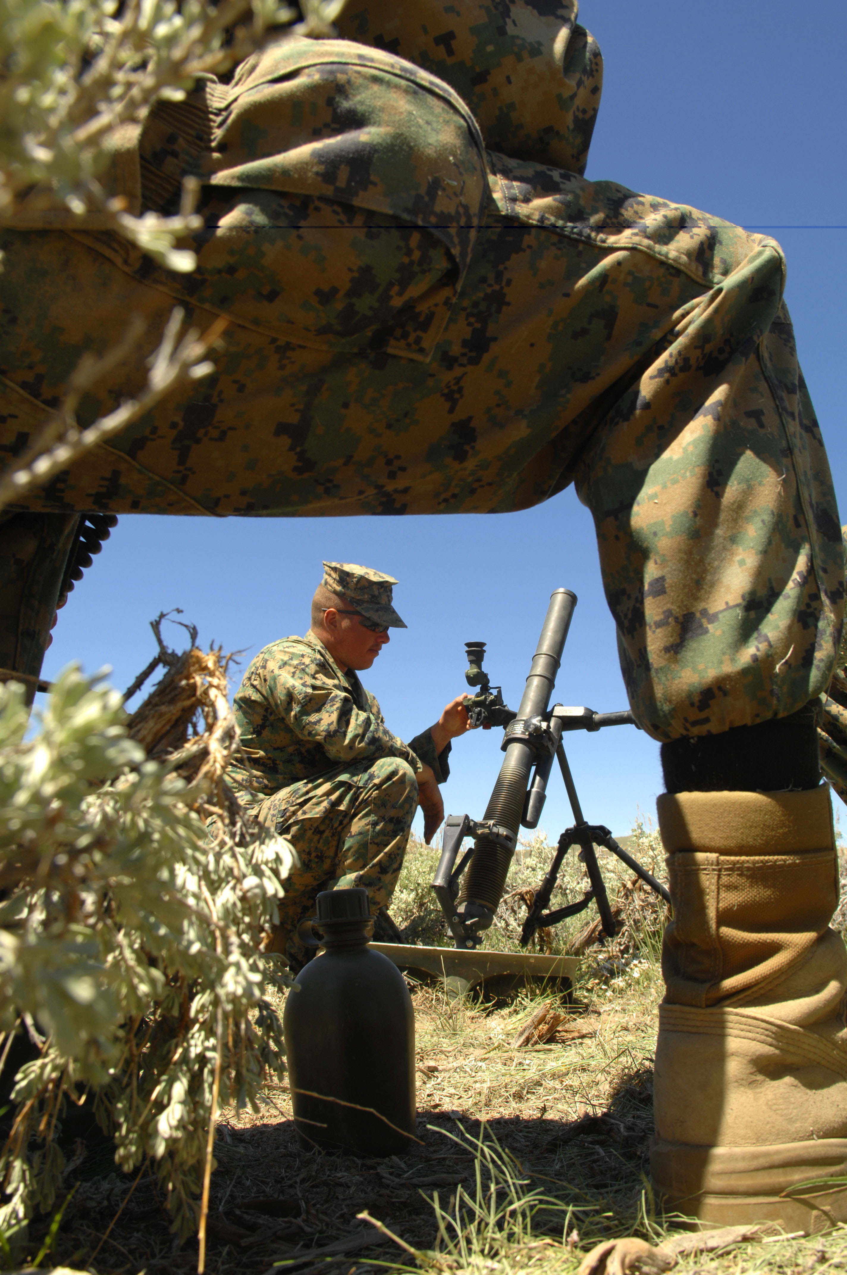 U.S. Marine Lance Cpl. Jacob Harig, a mortarman with Alpha Company, 1st Battalion, 24th Marine Regiment, trains on an M-224 mortar system at a training range near Hawthorne, Nev., during Javelin Thrust 2010 on June 21, 2010.